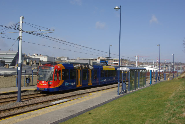 Sheffield Station Tram Stop A tram heading for Malin Bridge pauses at the Sheffield Station stop. A doorway from the platform leads directly to the station footbridge.